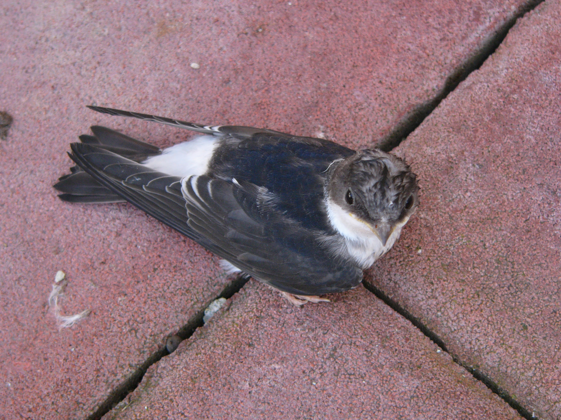 Juvenile Delichon urbicum. Locality: Prostějov, Czech Republic.